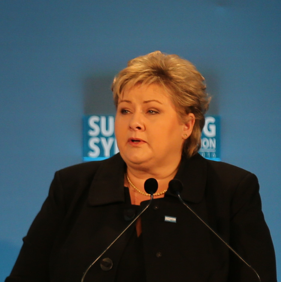 Erna Solberg, Prime Minister of Norway, at the opening plenary of the Supporting Syria and the Region conference. BACKGROUND The Supporting Syria and the Region conference took place in London on 4 February 2016. It brought together world leaders in a bid to raise the money needed to help the millions of people whose lives have been torn apart by the devastating civil war in Syria. Syria is the world's biggest humanitarian crisis. Billions of dollars in international aid are needed to support people caught up in the conflict. The UK, Germany, Kuwait, Norway, and the United Nations co-hosted the conference to raise significant new funding to meet the immediate and longer-term needs of those affected. The conference also set ambitious goals on education and economic opportunities to transform the lives of refugees caught up in the Syrian crisis - and to support the countries hosting them. This event alone cannot solve all these problems. Ultimately a political solution is necessary to bring the Syrian conflict to an end. Find out more: FREE-TO-USE PHOTO This image is in the public domain and free-to-use, as long as you credit the source as: Adam Brown/Crown Copyright